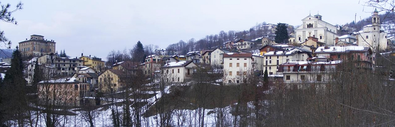 Pamparato as viewed from south (CN, Italy)